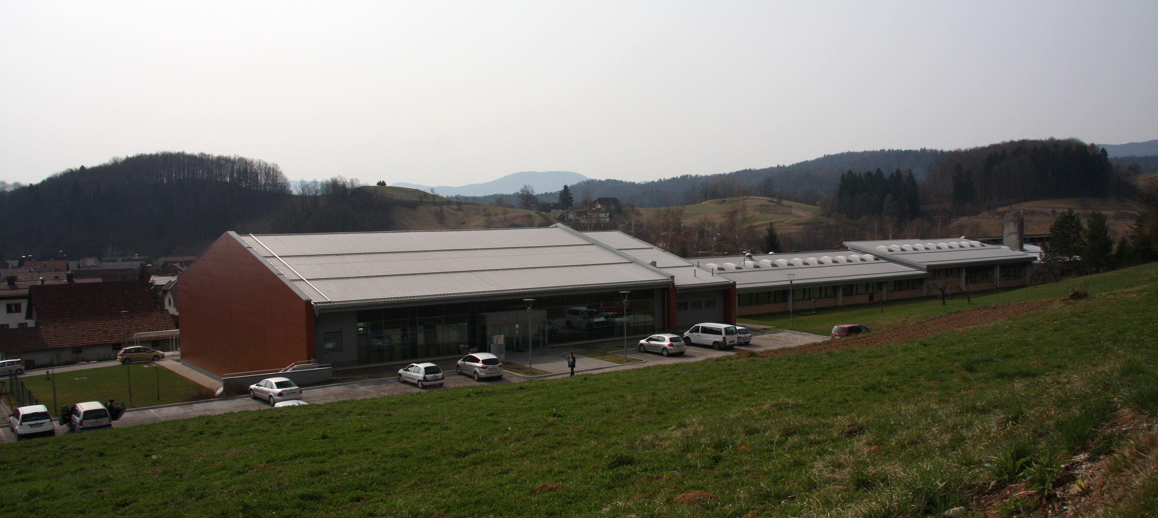 Horjul primary school